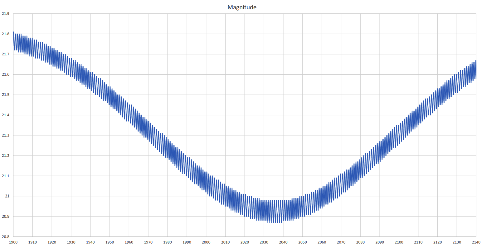 en:19521 Chaos chart